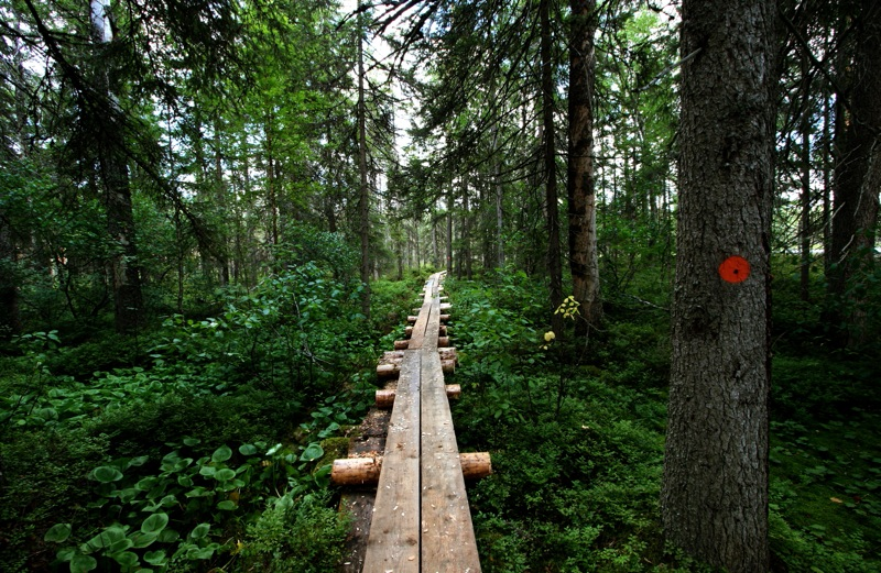 Pictures from Kuikan kierros nature trail at Petkeljärvi National Park in Ilomantsi, Finland.